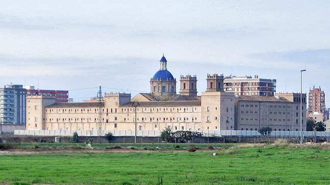 Sant Miquel dels Reis, valencia, Spain